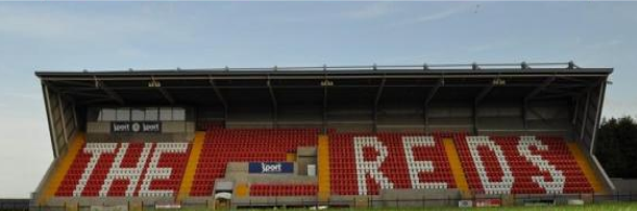 Solitude new stand